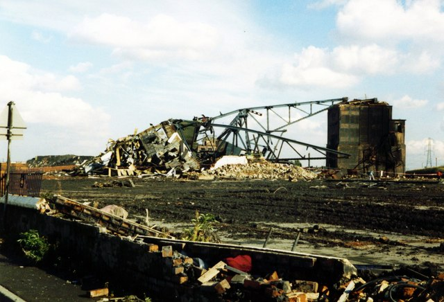 Now you see me, now you don't part 2: the fall of a giant Photo taken shortly after Fryston winding tower was demolished when colliery was closed after the miners strike of 1984-85. "With one well placed shot, the giant falls and rises no more!" See 760604. Exact date unknown.